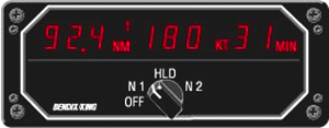 Distance Measuring Equipment, an air navigation device in airplane cockpits. DME signal station is combined with VOR stations. As you see, this airplane is 92.4 nautical miles far from the station, the radial speed component is 180 knots, with this speed the station would be reached in 31 minutes. This instrument does not indicate the heading and path of the airplane.